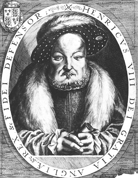 Engraving of Henry VIII by Peter Isselburg after work done by Cornelis Metsys